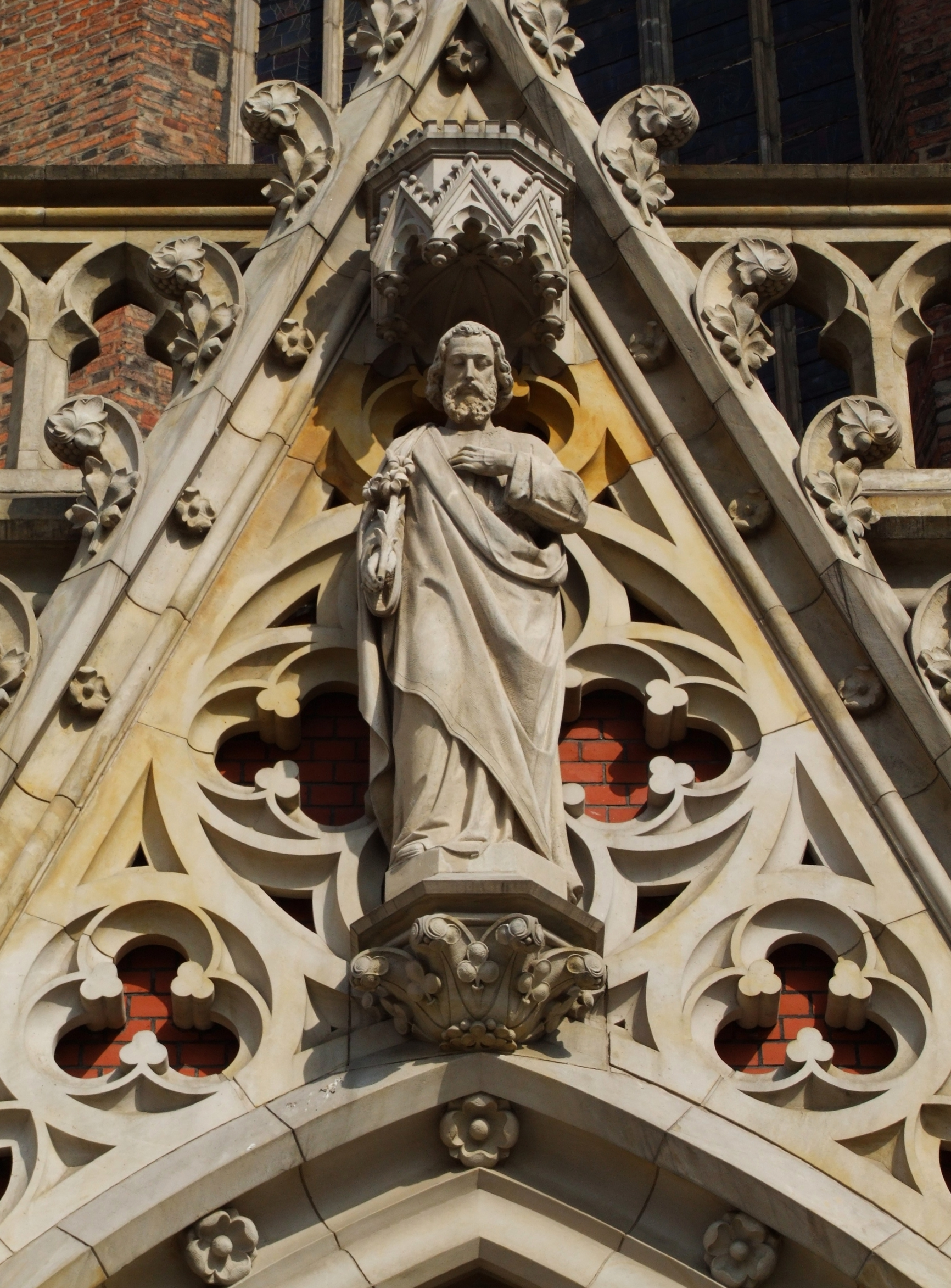 Statue of Saint Joseph on the portal of the Nysa (Neisse) cathedral